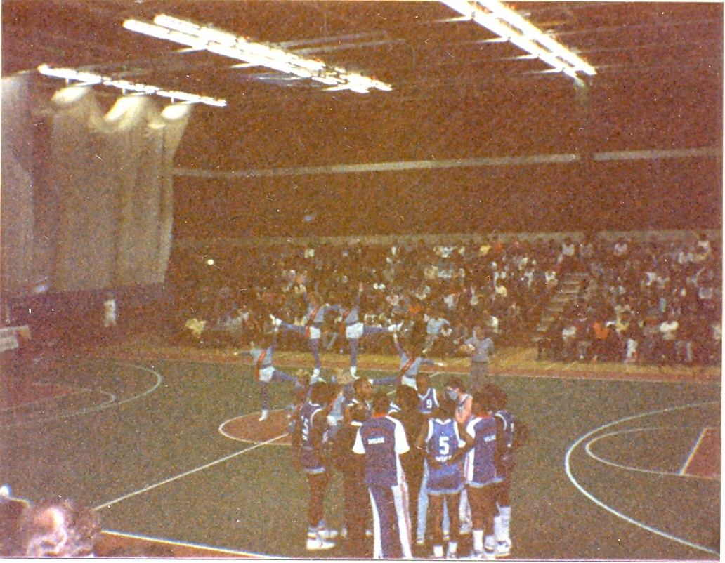 Portsmouth FC Basketball Club v Crystal Palace, Mountbatten Centre, Portsmouth, March 26th 1986. The Portsmouth cheerleaders entertain the crowd while their team (in blue) take a time-out.